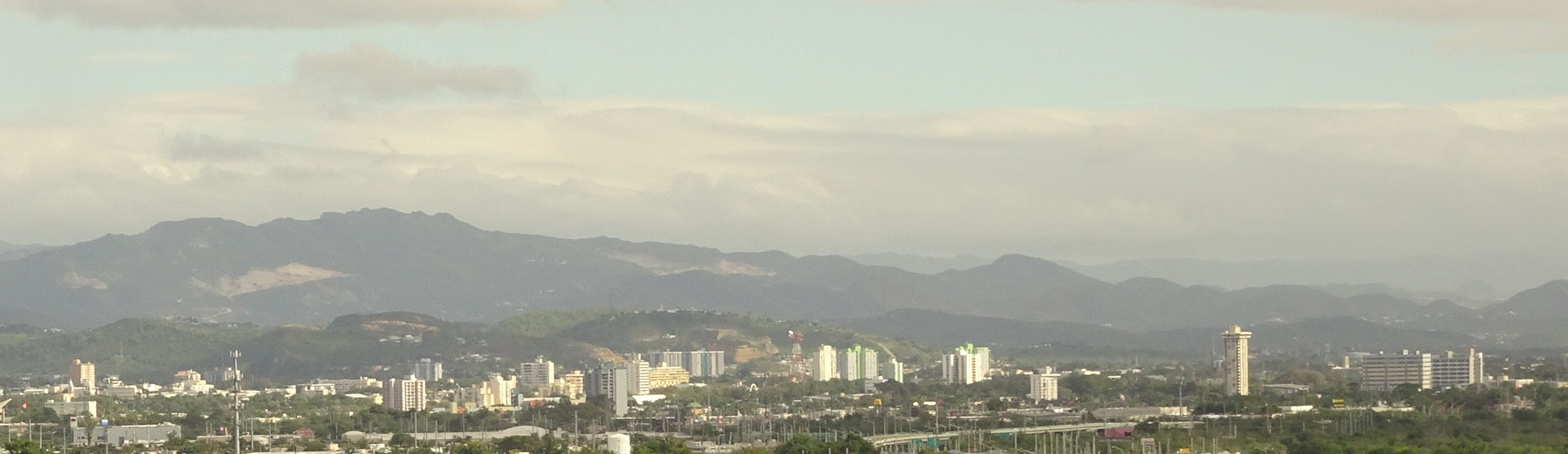 Ciudad de Ponce, Puerto Rico, vista desde el Hotel Ponce Holiday Inn, mirando al este (DSC02782D)